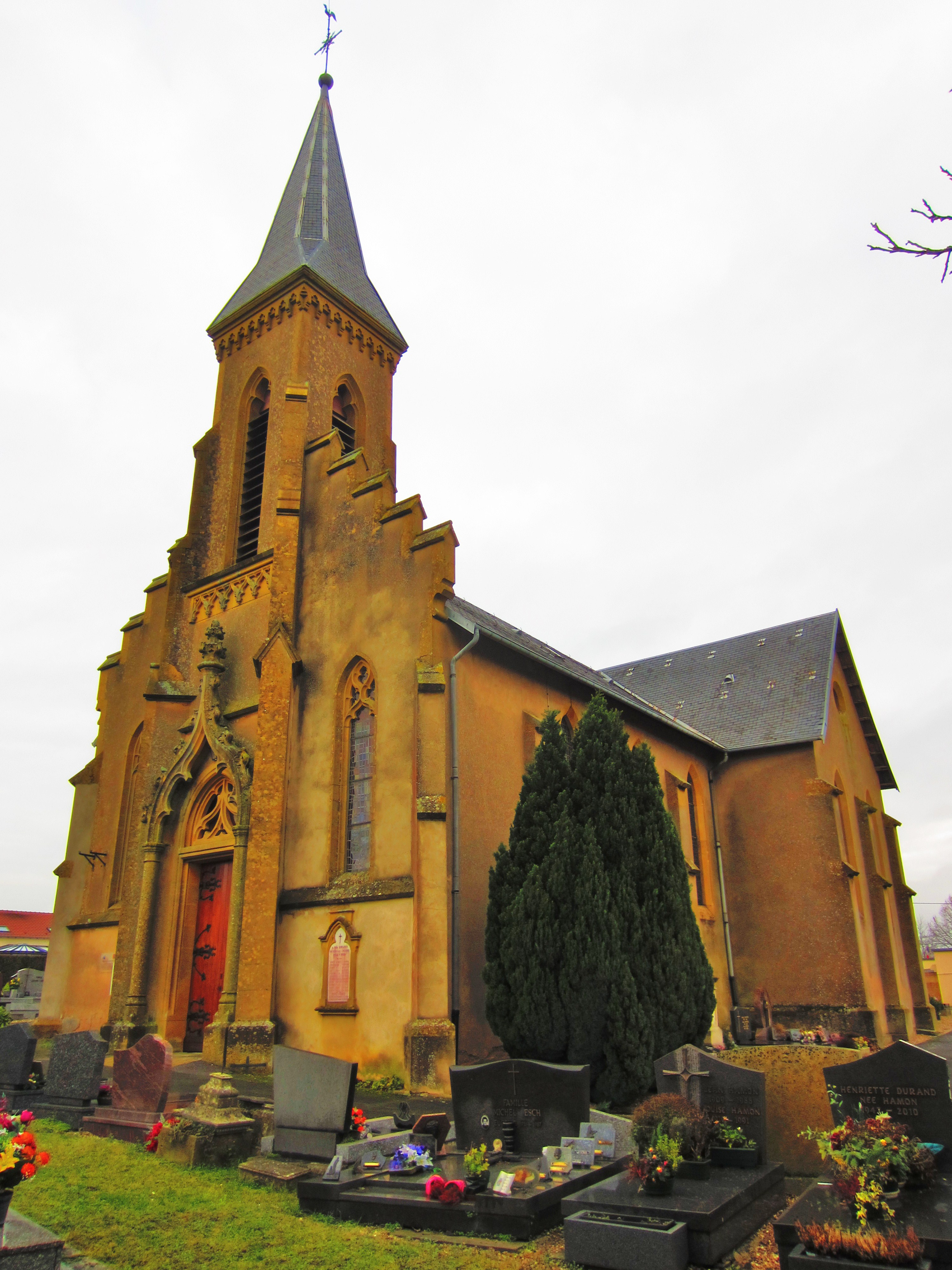 Description eglise Mecleuves Date9 January 2012Sourcemon appareil photoAuthorAimelaimePermission(Reusing this file) eglise Mecleuves